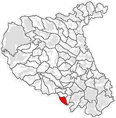 Limits of commune within Vrancea County